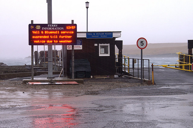 Ferry service suspended, Belmont In a SW gale, a few ferries struggled through before the wind got too strong and the service was suspended.